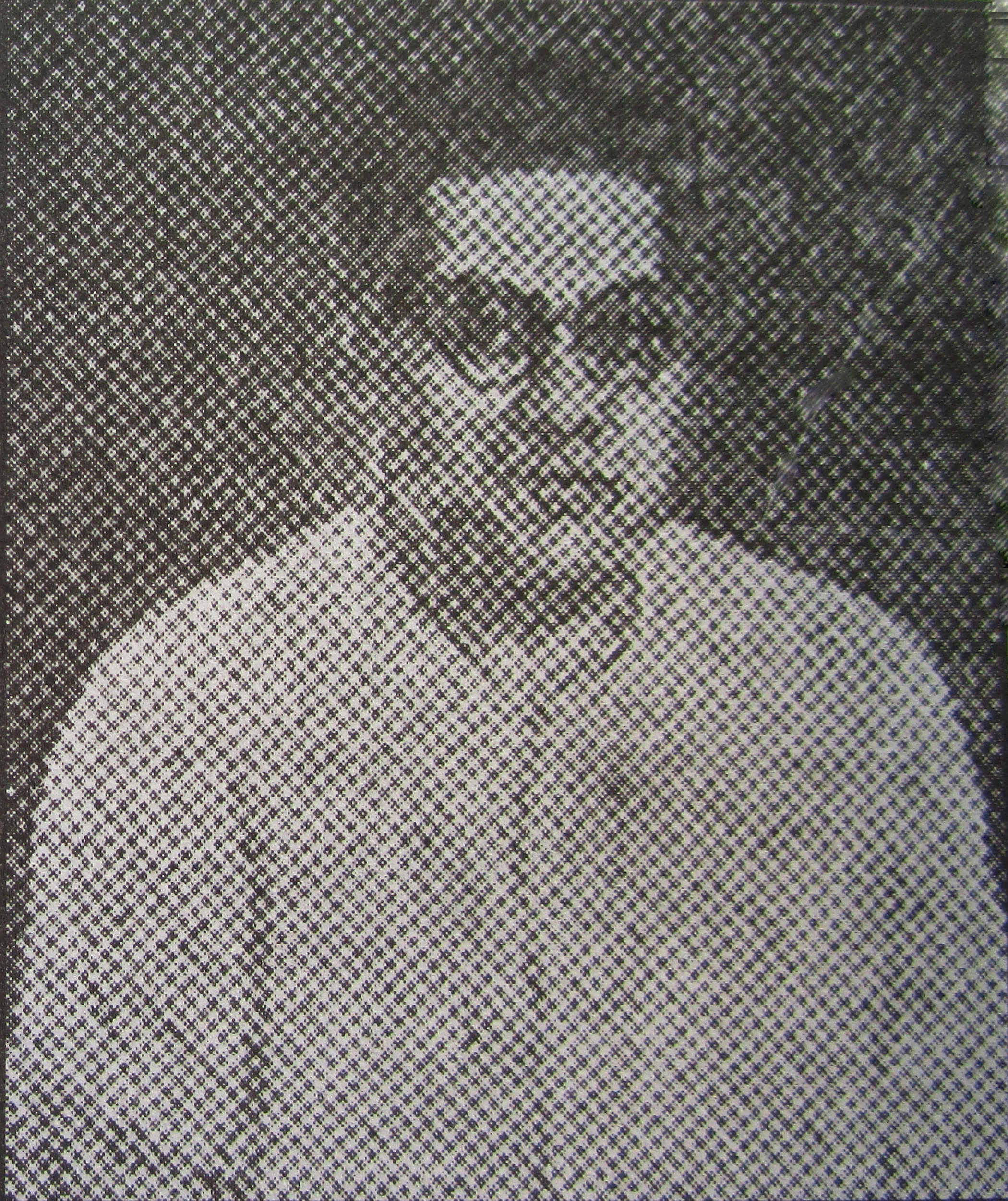 Shachindranath Mitra